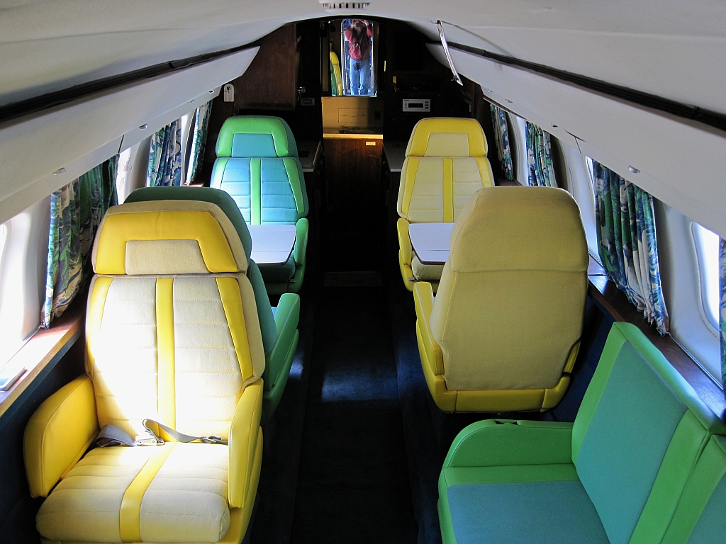 Elvis Presley custom plane Lockheed Jet Star "Hound Dog II" at Graceland in Memphis, Tennessee